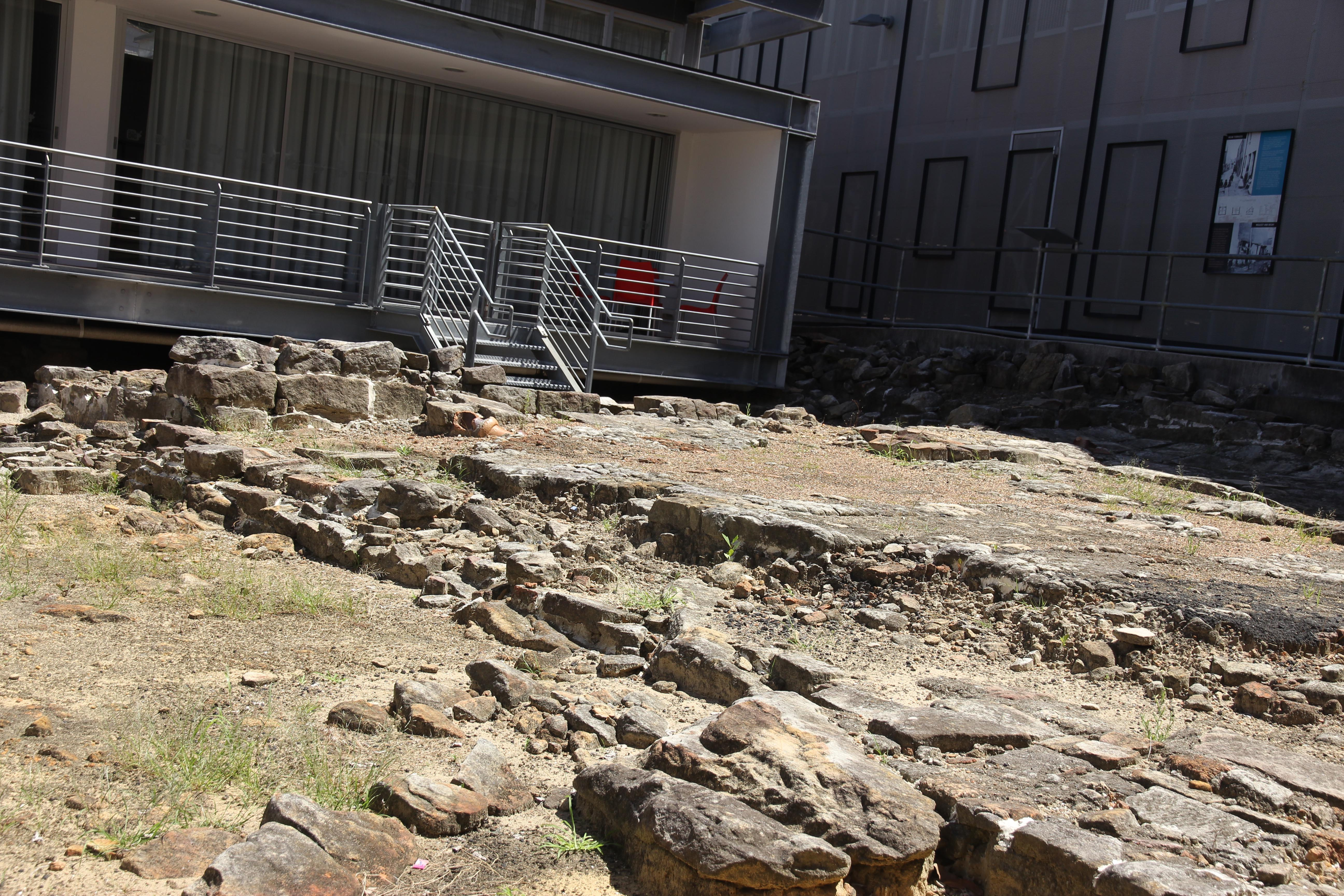 Cumberland Street Archaeological Site, an archeological remains site adjacent to the YHA Sydney, commonly called "The Big Dig", located in the Long's Lane Precinct between Cumberland and Gloucester Streets in The Rocks, City of Sydney, New South Wales, Australia